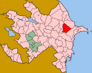 Map of Azerbaijan showing Qobustan rayon.